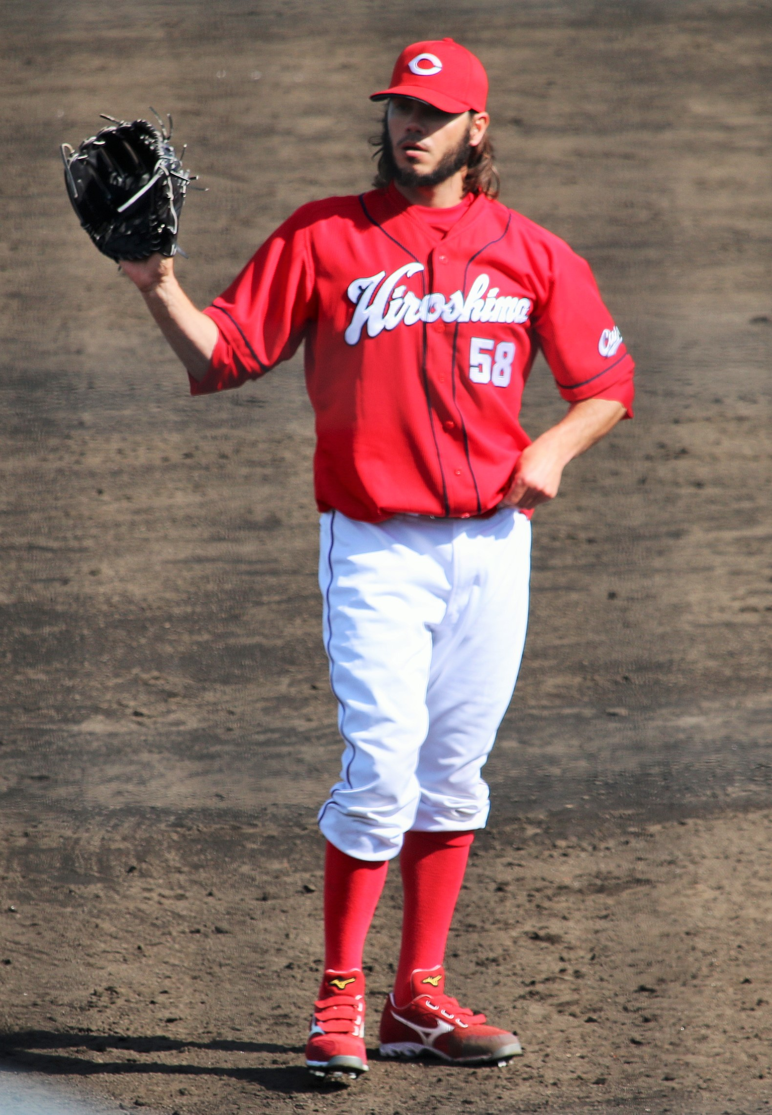 Zach Phillips, pitcher of the Hiroshima Toyo Carp, at Hanshin Naruohama Baseball Ground.